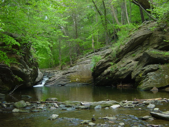 Cresheim Creek forms Devil's Pool just before it meets Wissahickon Creek.